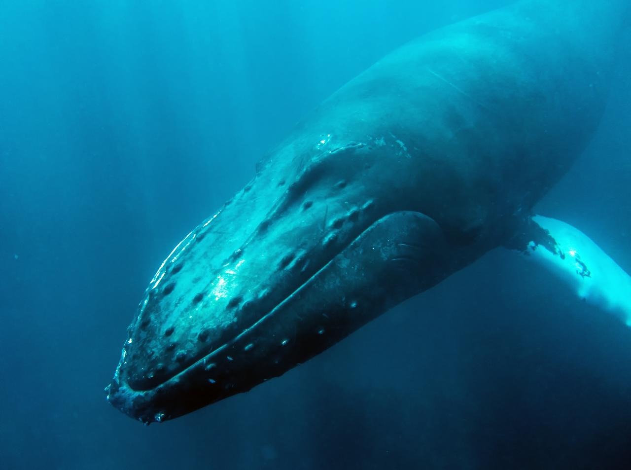 Humpback Whales